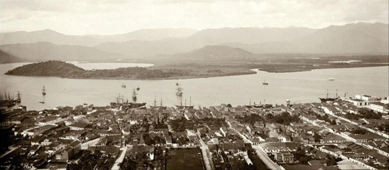 City of Santos, Brazil.